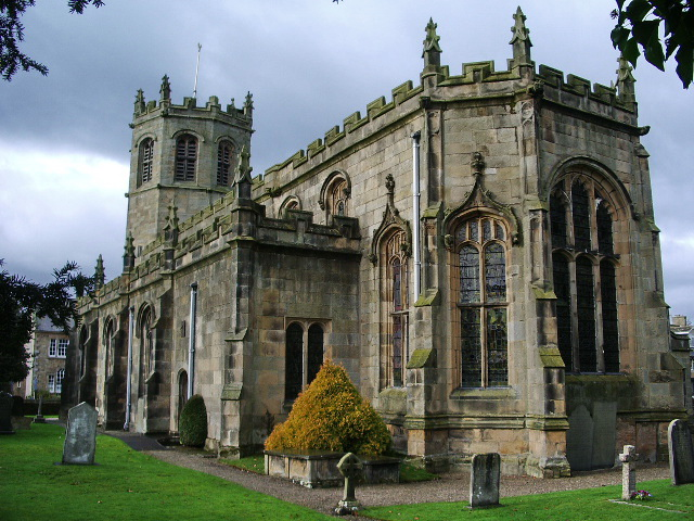 Photograph